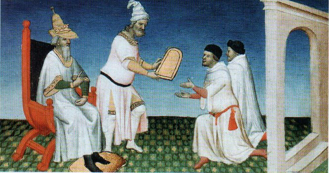 Polo brothers in the court of Kubilai Khan. Khan gives them a tablet (paiza).